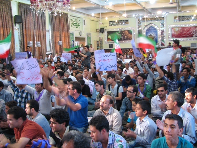 Hassan Rouhani Supporters in 2013 Election 12 June 2013 - Nishapur